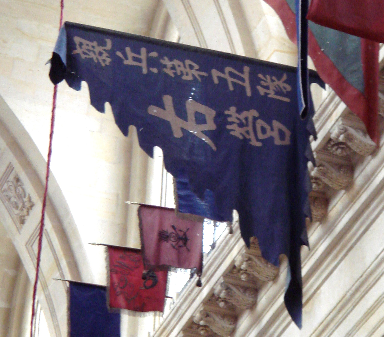 Qing flag seized by the Anglo-French in the Second Opium War. 英法聯軍繳獲的清軍親兵第五隊右營旗幟.